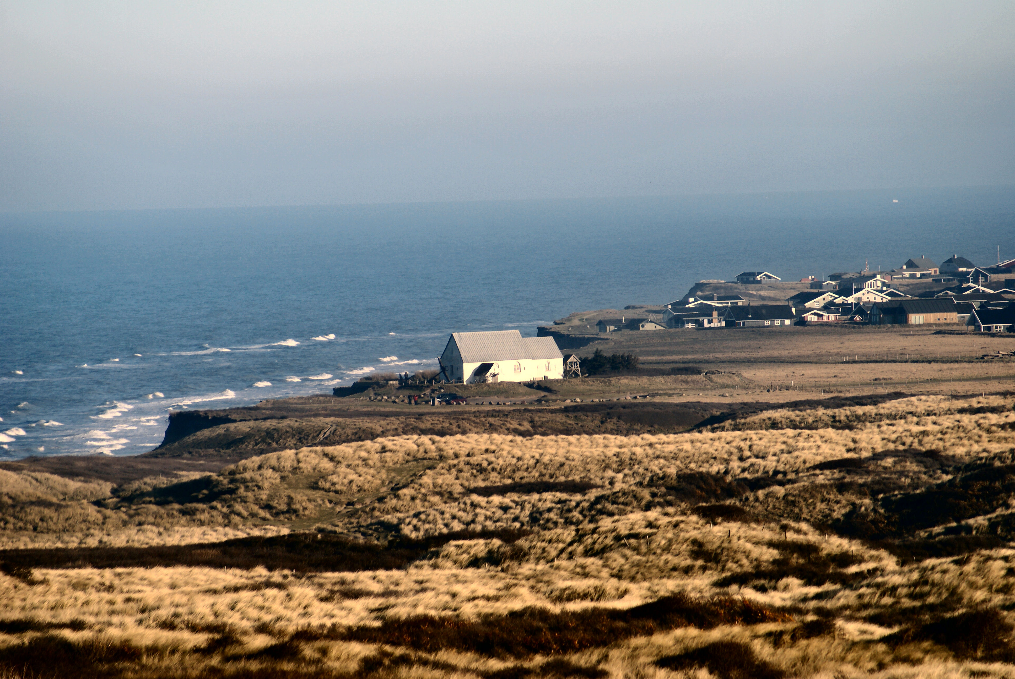 Church of Maarup, Denmark